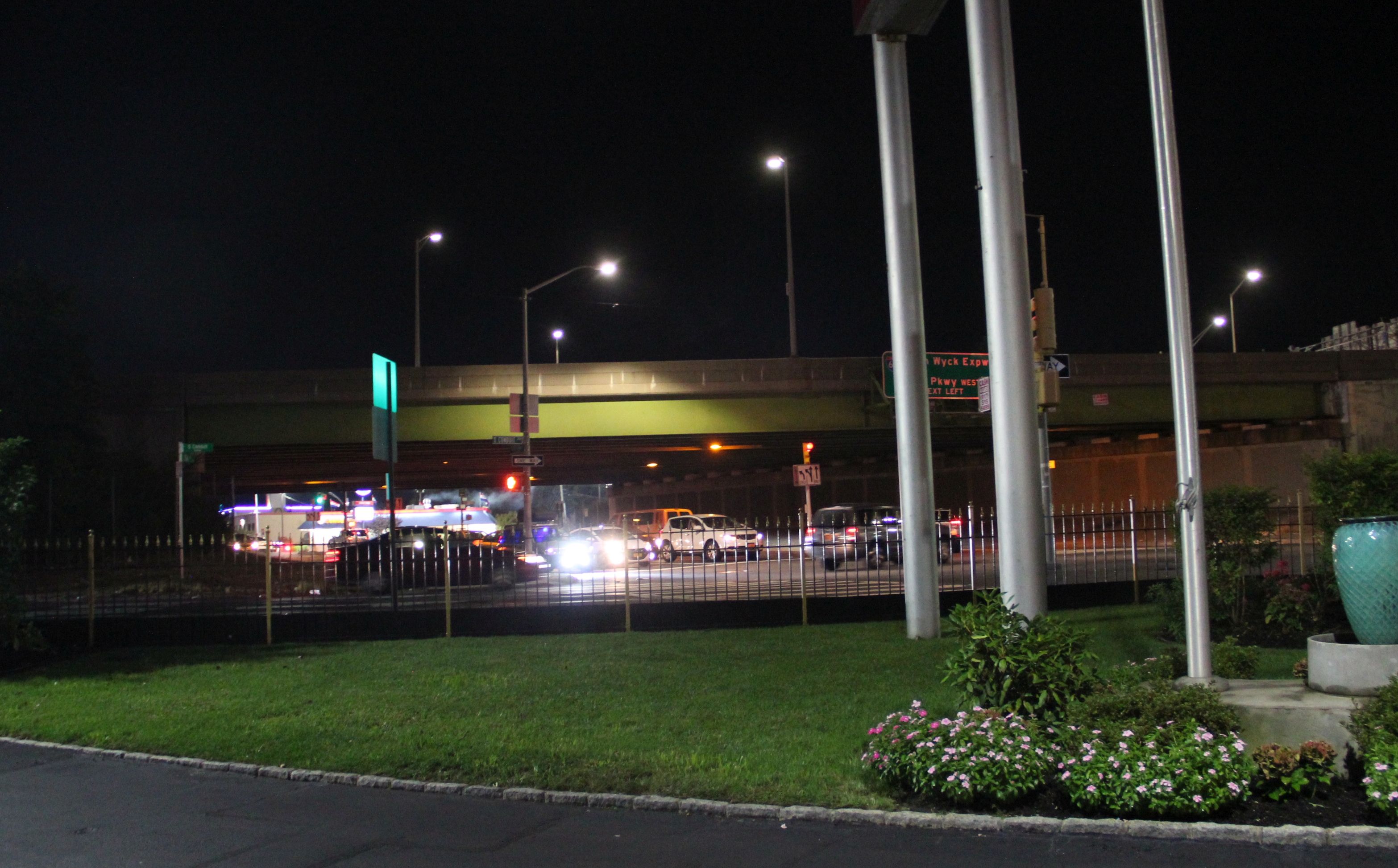 JFK Expressway interchange, Rockaway Blvd, Queens, NY